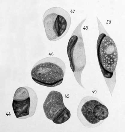 Leucocytozoon caprimulgi in Caprimulgus fossii - legend of the plates